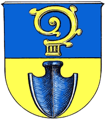 Coat of arms of Bischofferode